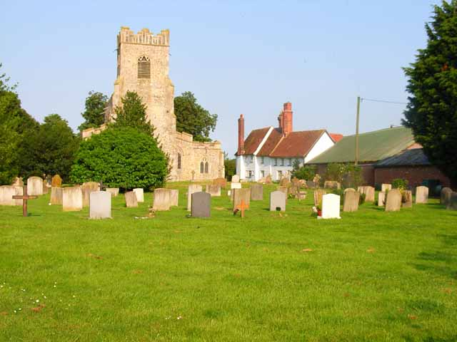 St Bartholomew's parish church, Groton, Suffolk, seen from the west, with Groton Hall centre right